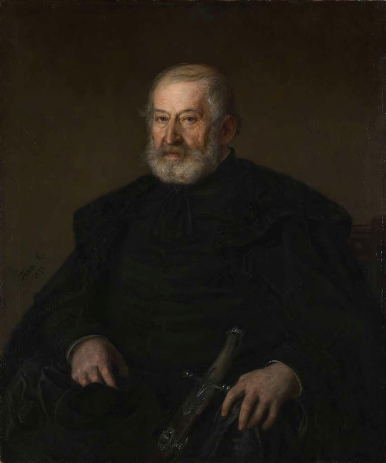 Károly Szentivány de Szent-Ivány (1802–1877) Hungarian politician, member of the Parliament, comes of Gömör and Kishont County.